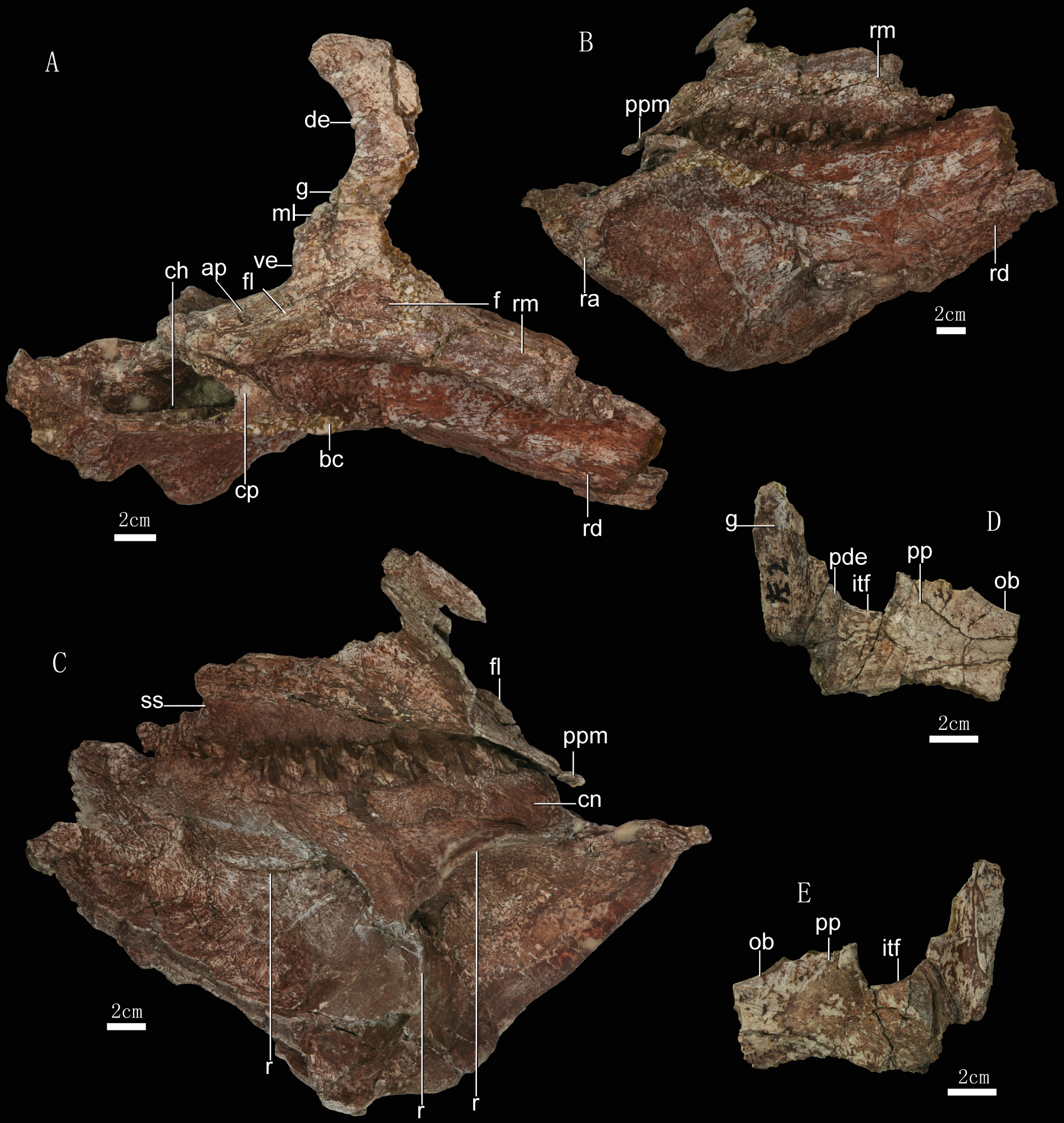 Right maxilla, jugal, quadratojugal, ectopterygoid, and mandible of Zhuchengceratops inexpectus holotype (ZCDM V0015).